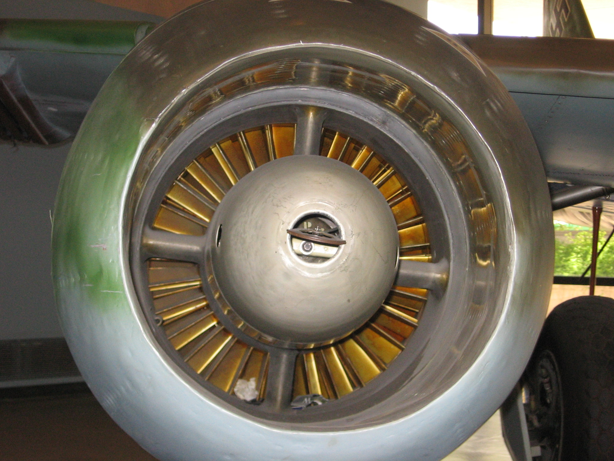 Took this by Distractxreact at the National Air and Space Museum with a Canon PowerShot A510. This is a Junkers Jumo 004 as equipped to a Messerschmidt Me-262.